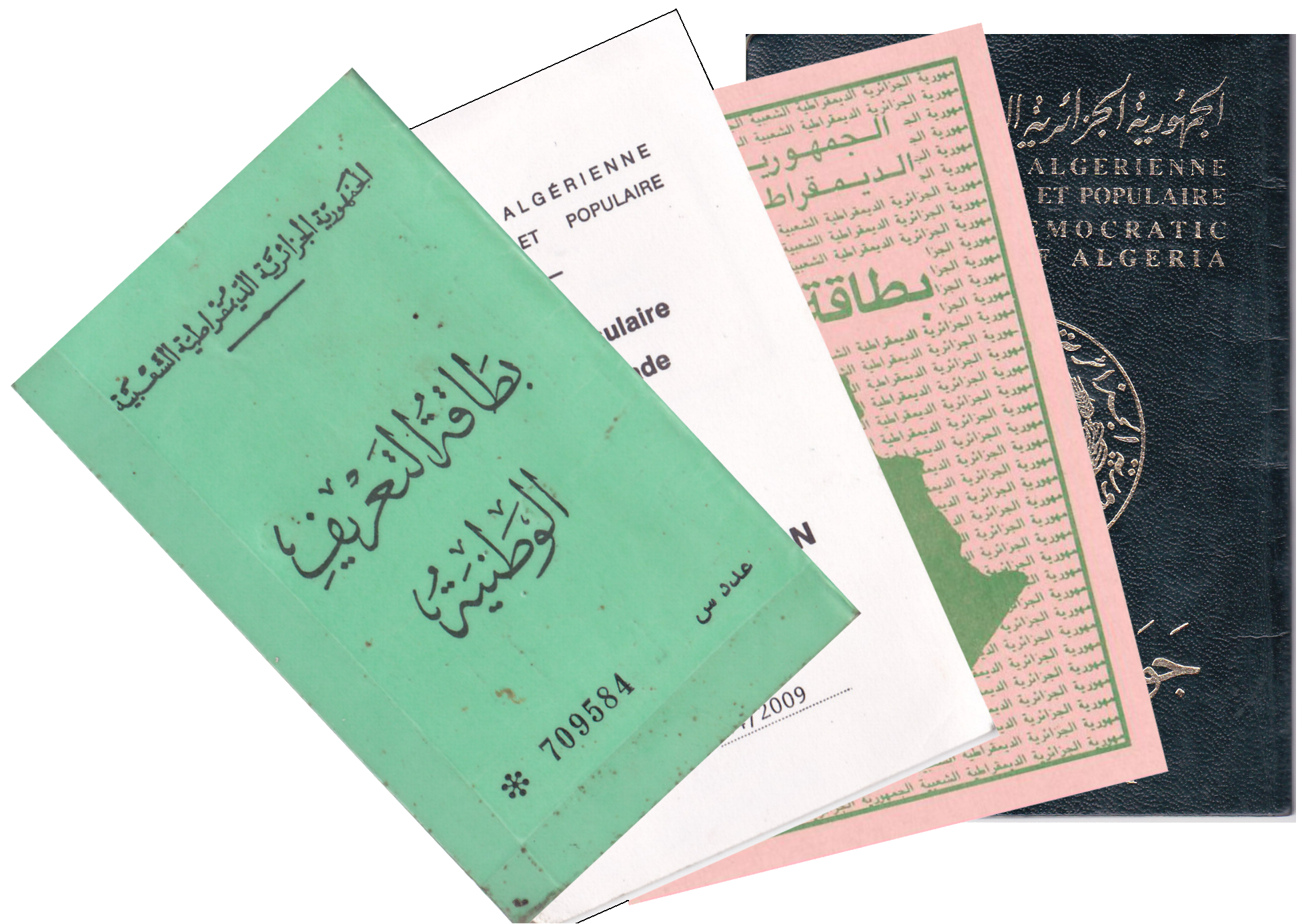 Documents of Algeria